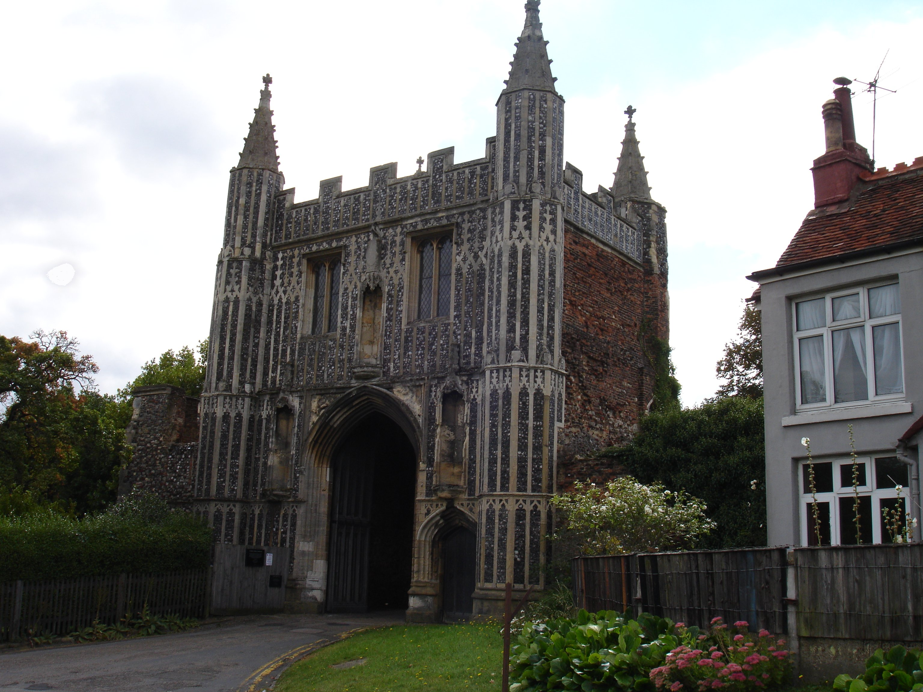 Photograph of Gatehouse of St John's Abbey, Colchester, Essex, England